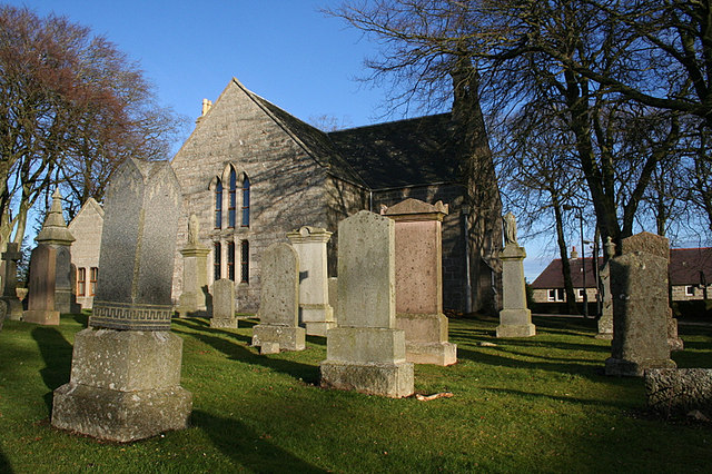 The west wall of Church of Scotland, New Pitsligo, Aberdeenshire